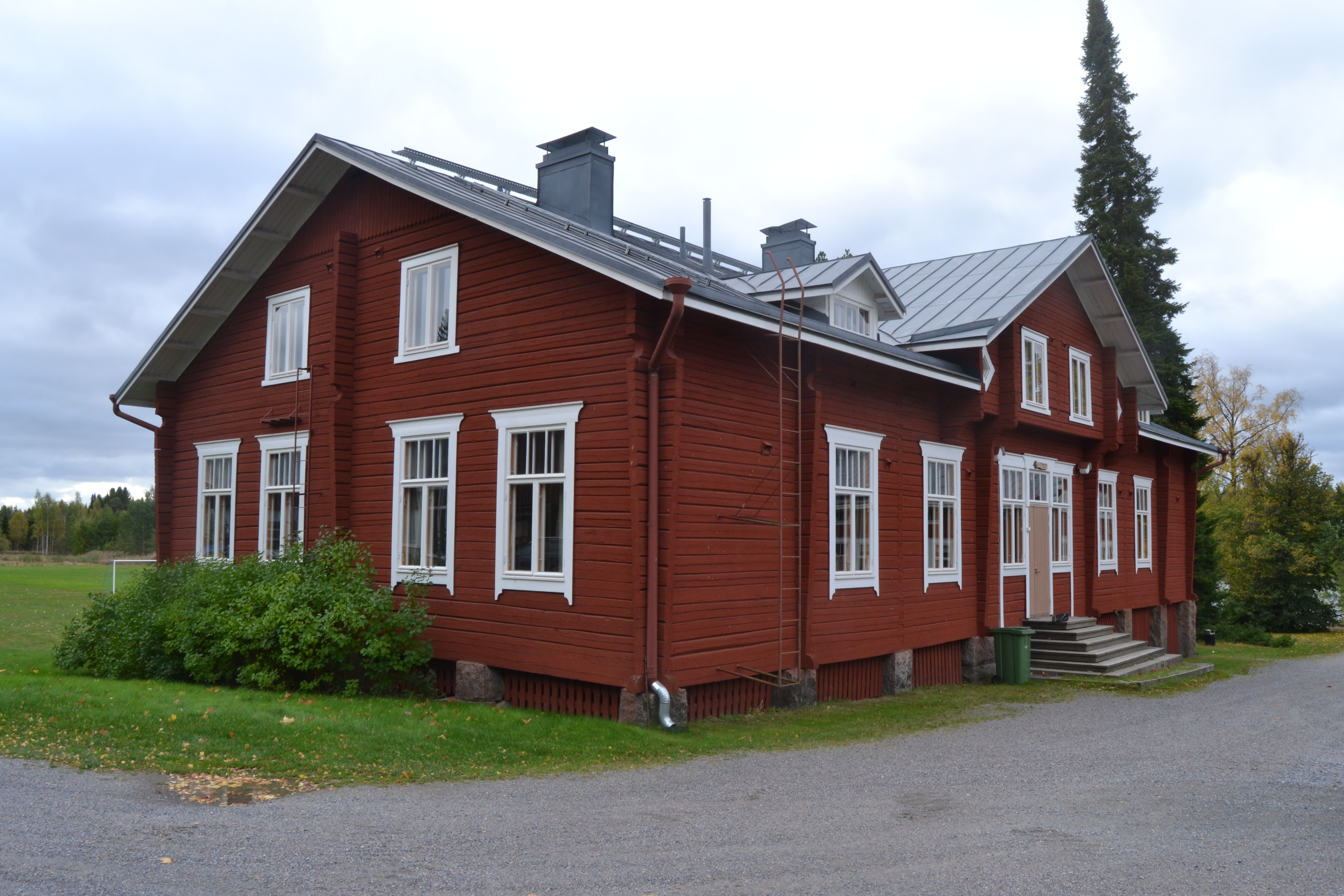 Building Impivaara in Hyytiälä forestry field station